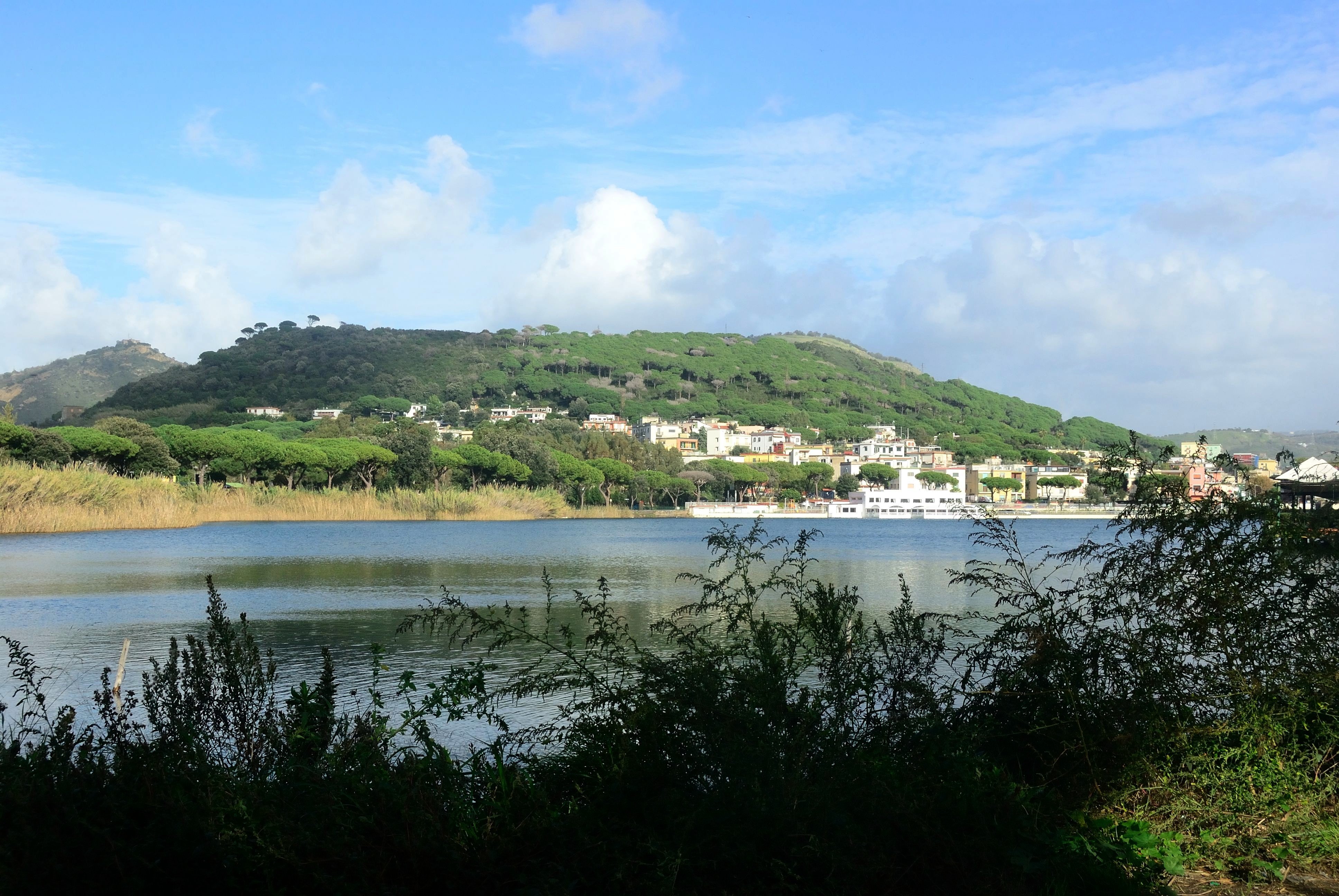 Field trip to Campi Flegrei